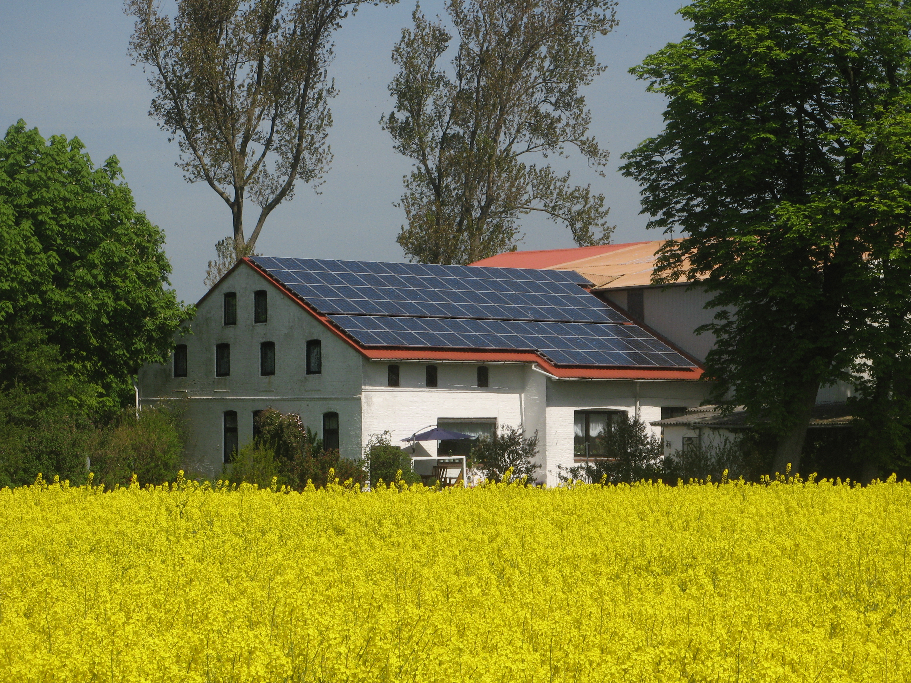 House in Oesterwurth with solar panels and rapeseed, Holstein, Germany